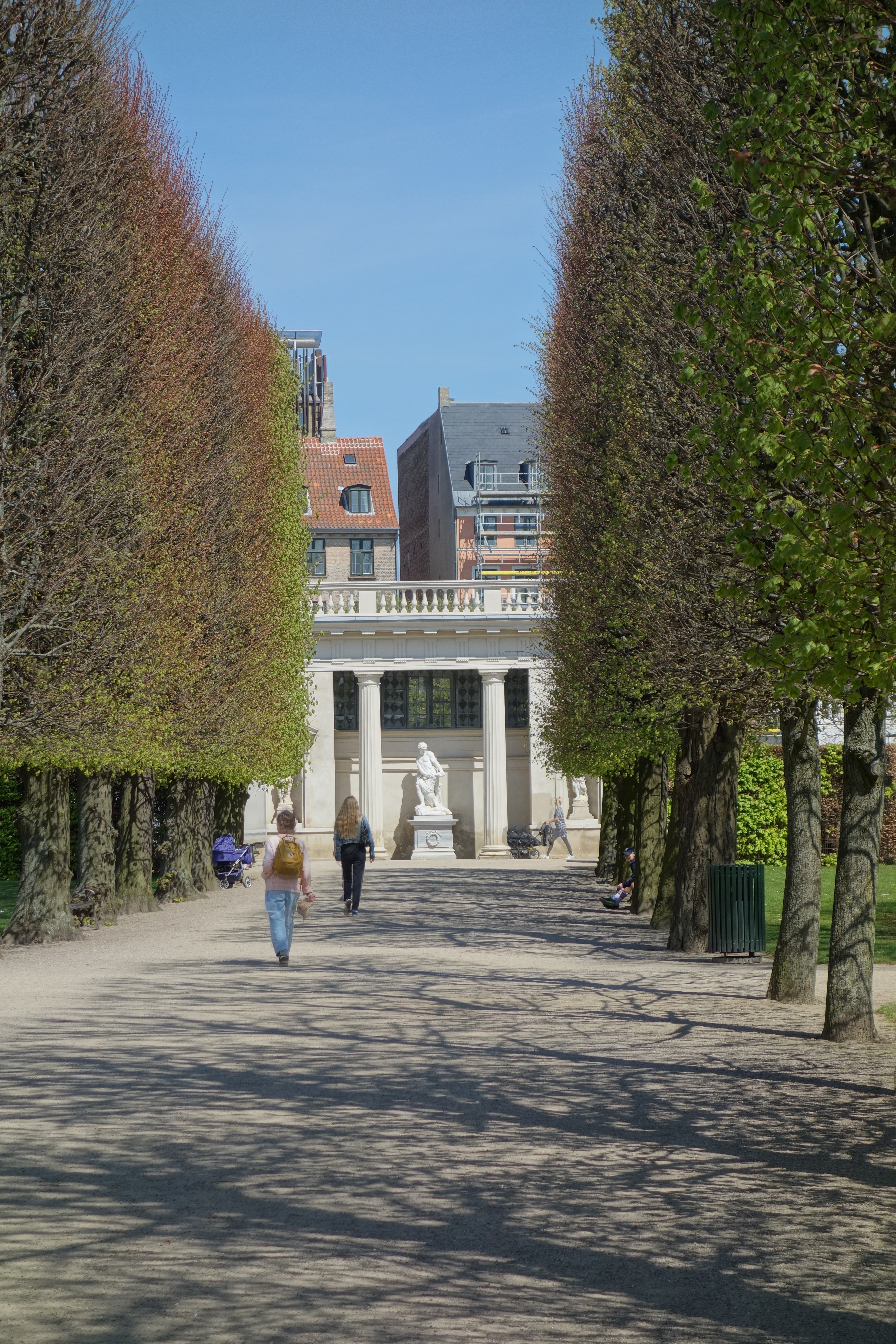 The Hercules Pavilion in Kongens Have in Copenhagen, Denmark